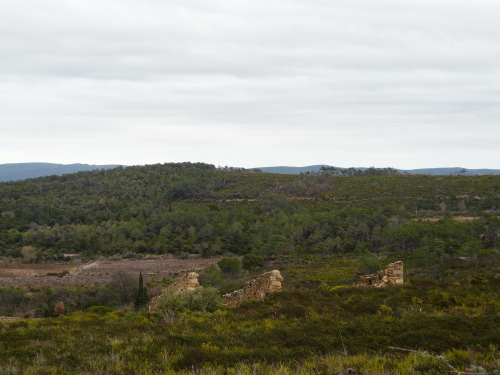 Pinewood partial view, Boutenac, Aude, France